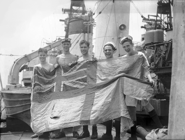 IWM caption : A proud souvenir, the torn Battle Ensign of HMS HMS Tartar (F43) carried in her action with German destroyers in the Channel. It was in this action 8 June 1944 at Barfleur that a German destroyer ZH 1 was torpedoed and sunk by the destroyers Tartar and Ashanti and the former was hit on the bridge by three 120 mm shells. Left to right: Able Seamen E.G. Nurse of Swansea; W. Wetherall of Chiswick; D.J. Harvey of Worcester; G. Lilley of Rockhampton and P. Gill of Manchester. They have all served over three years in Tartar.